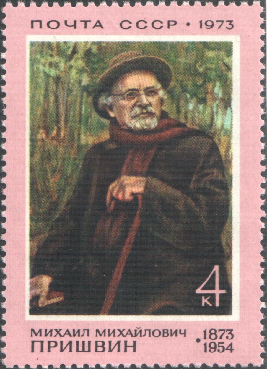 USSR stamp